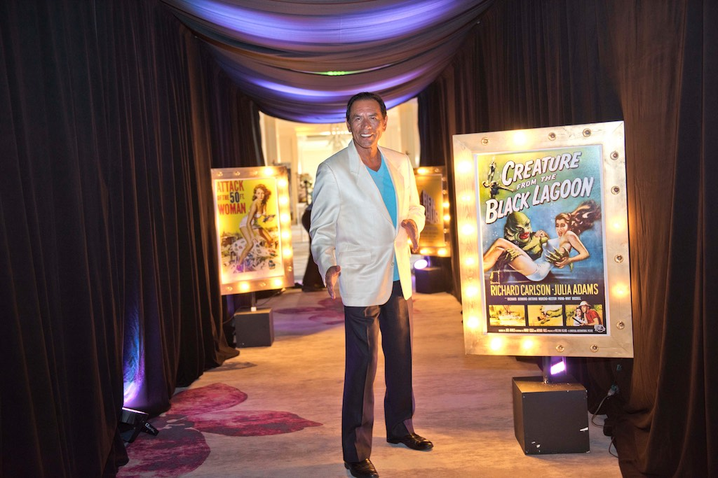 Actor Wes Studi at CayFilm 2015